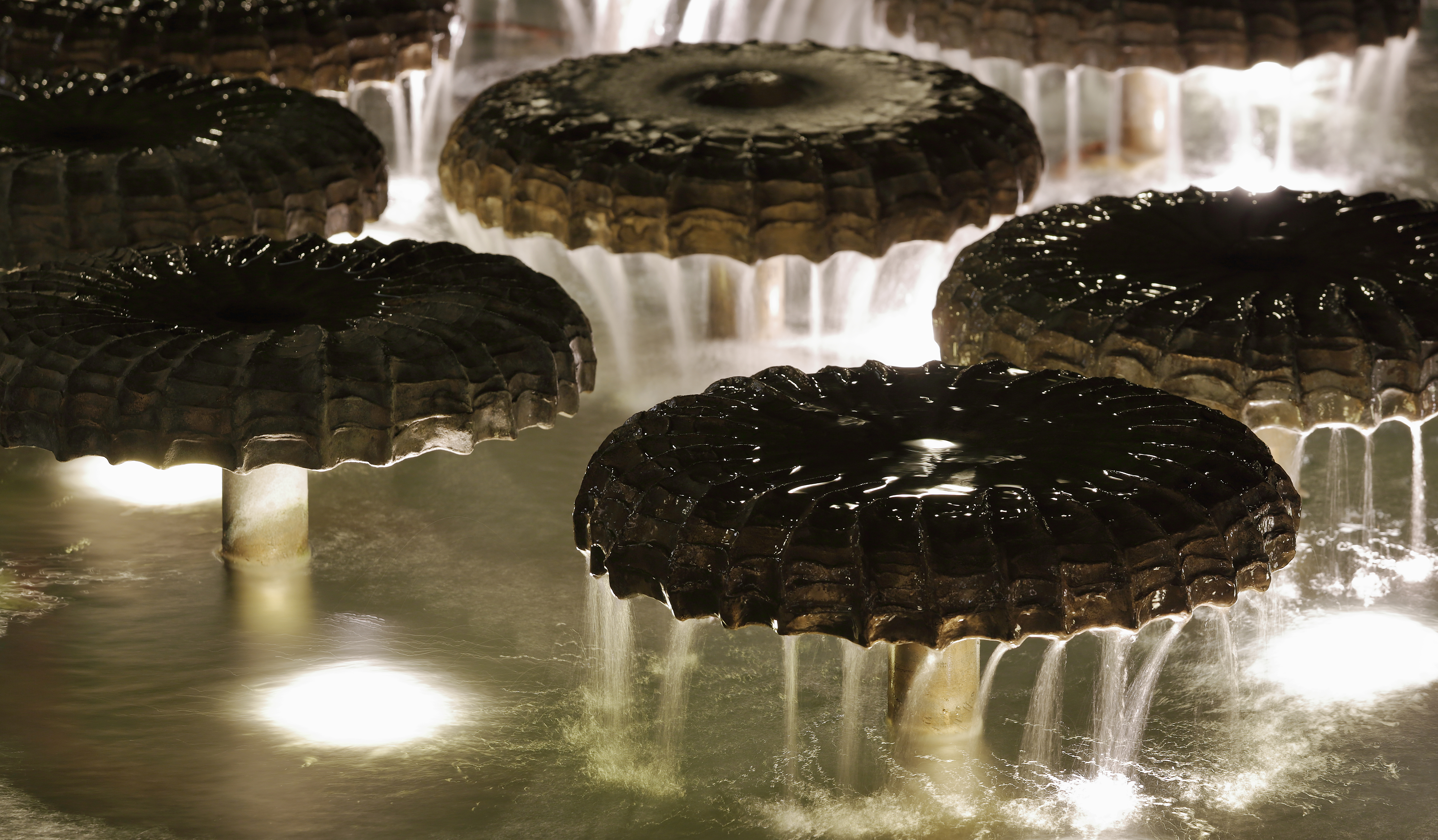 Detail of Wasserglockenbrunnen, also known as Wasserpilzbrunnen on Frauenplatz, next to Frauenkirche, Munich, at night. It was designed by Bernhard Winkler in 1972.